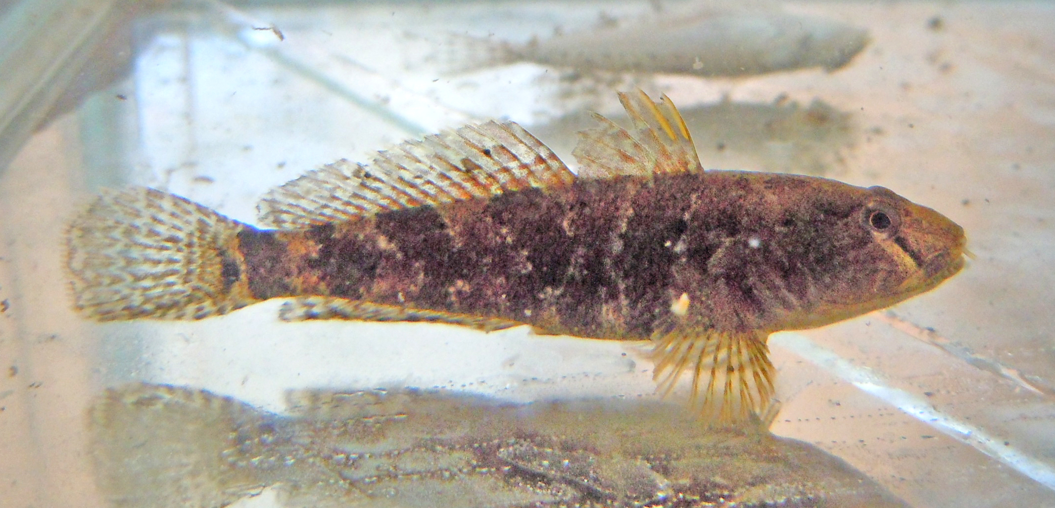 Marine tubenose goby (Proterorhinus marmoratus) from the Gulf of Odessa, Ukraine